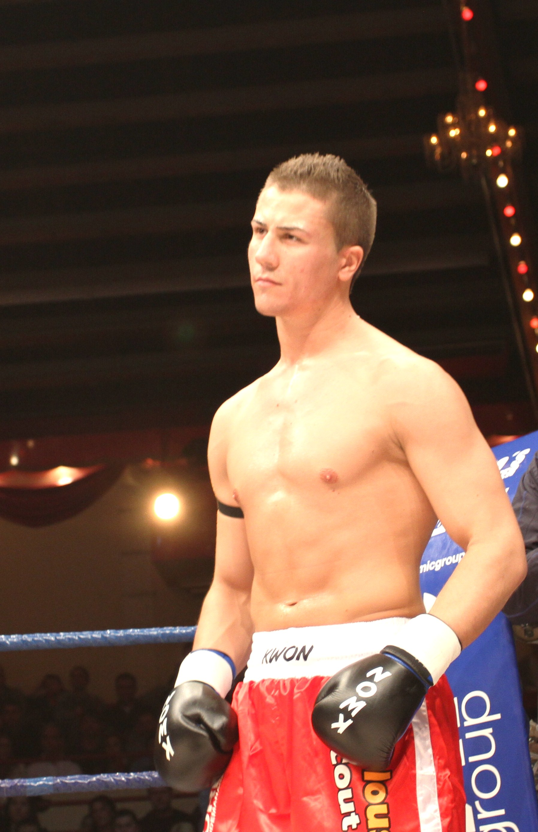 Florian Pavic at Steko`s Fight Night in Munich 2011